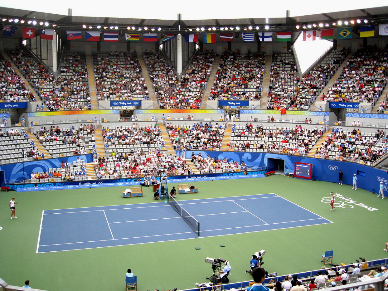 Semifinals Women's singles: Li Na vs Dinara Safina, Olympic Green Tennis Centre Interior